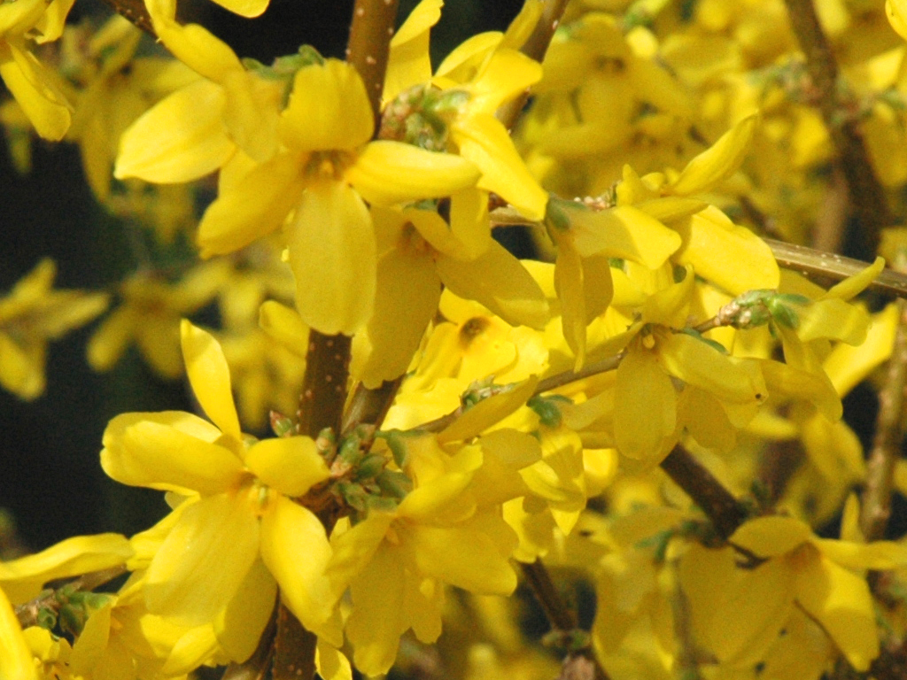 Flowers on a Forsythia bush (cropped from Image:Forsythia close-up 2.jpg).